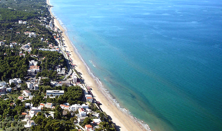 San Menaio and its beach